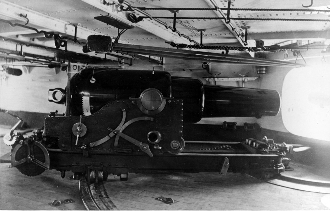 Photograph of a 9-inch (229 mm) rifled muzzle-loading gun aboard the British central-battery ironclad HMS Iron Duke. Hanging from the deckhead over the gun are its ramming staff and its sponging-out staff. One of the gun's shells, partially obscured by the glare from outside, is hanging in the gunport in front of the gun.